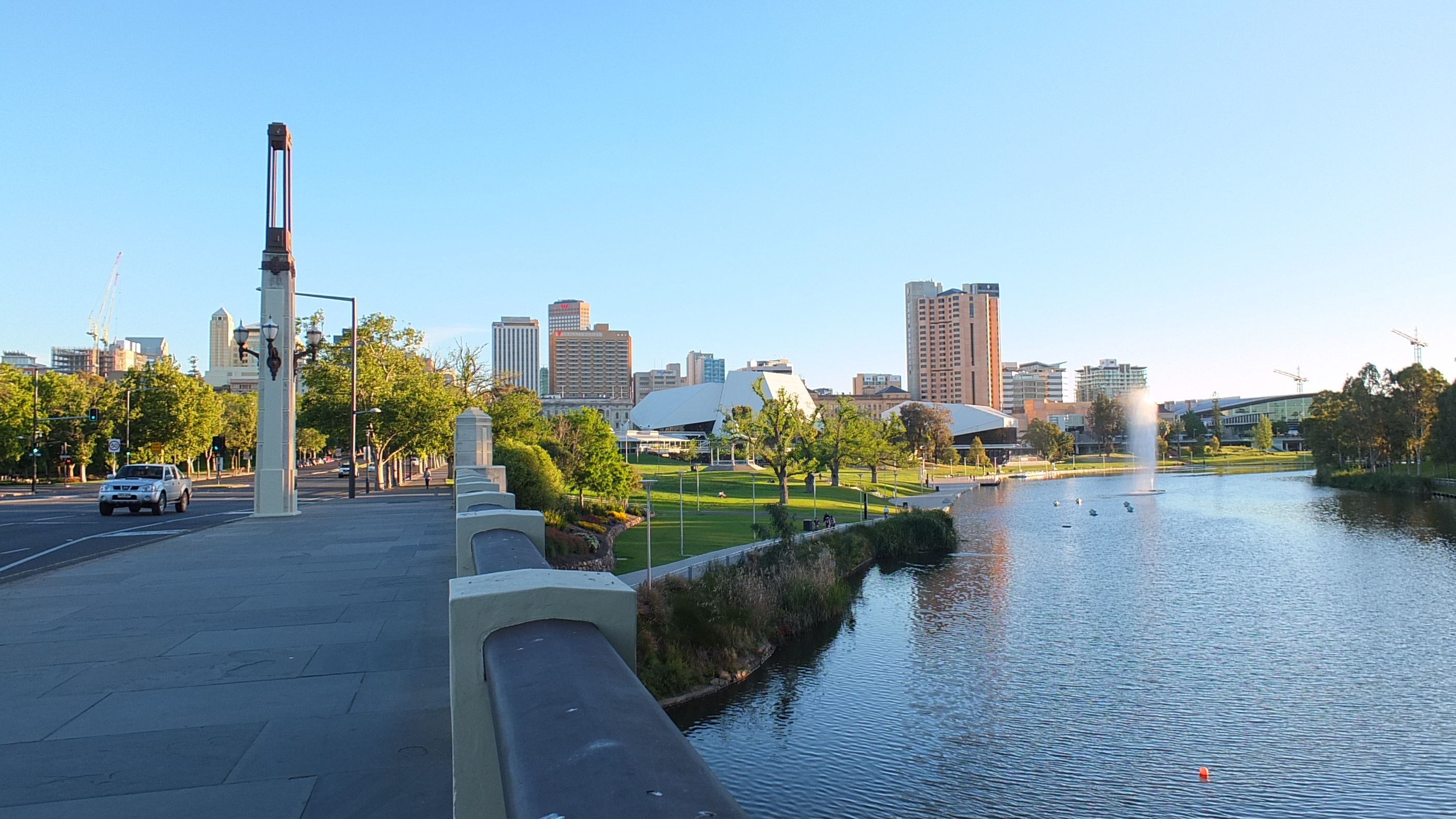 The Adelaide skyline and River Torrens